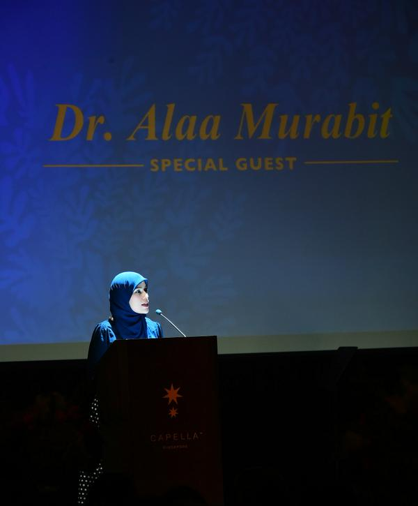 Dr. Alaa Murabit, the keynote speaker at the annual SNOW Gala